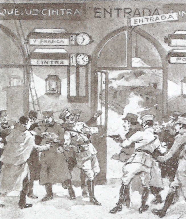 1919 Postcard, showing the murder of portuguese president Sidónio Pais at the Lisboa-Rossio Railway Station, on the 14th of December 1918.